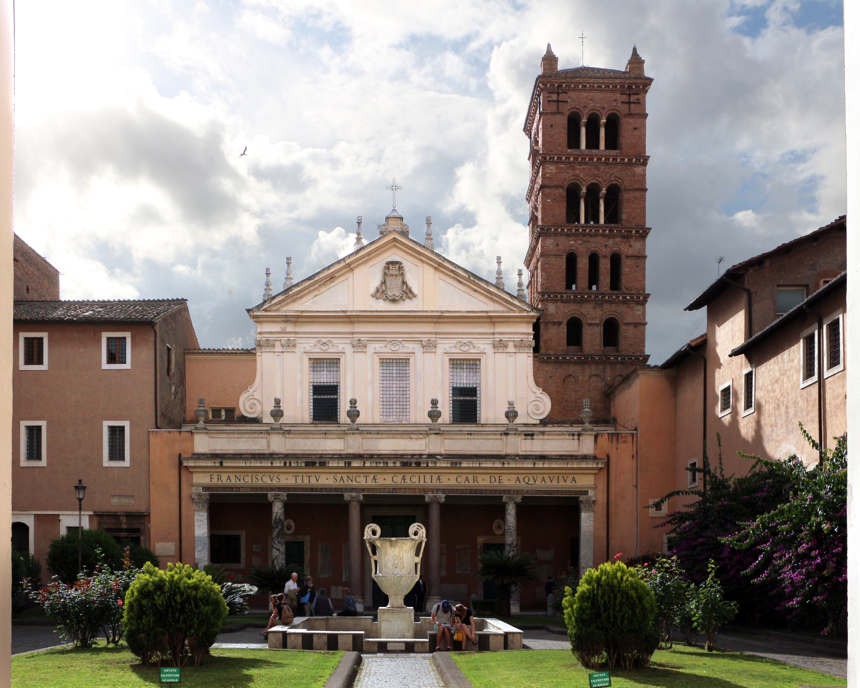 Santa Cecilia (Rome)